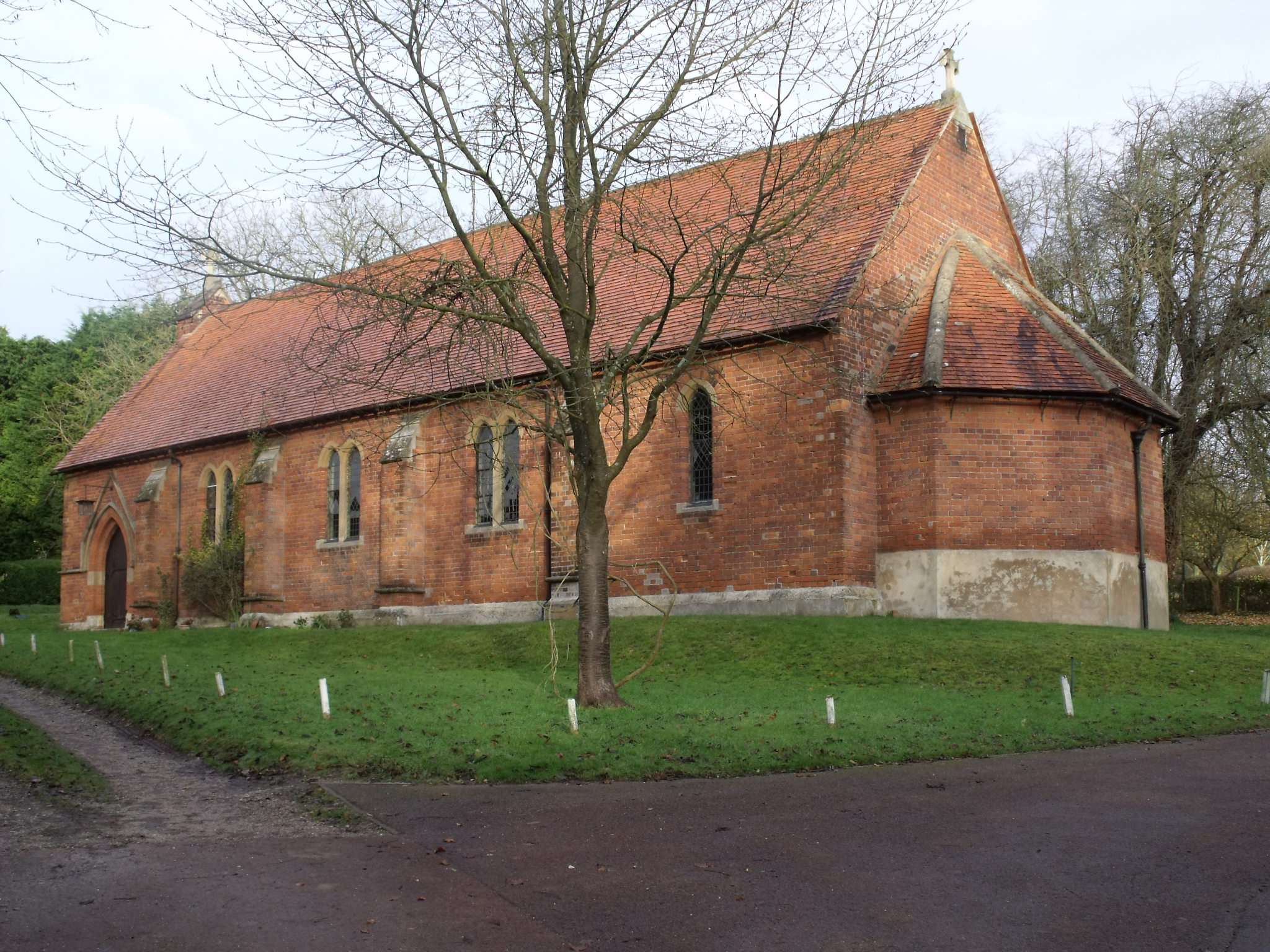 St Paul's parish church, West Wycombe, Buckinghamshire, seen from the southeast